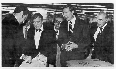 Congressman Charles Vanik (third from left) and Congressman Mo Udall (second from right) visit a Samsonite plant in "Ambos Nogales", a link in the "twin plant" concept that has created hundreds of jobs for communities on both sides of the international boundary. (The source does not specify which Nogales is in this photograph.)